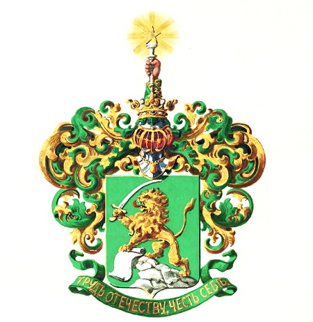 Coat of arms of the family Kazembek